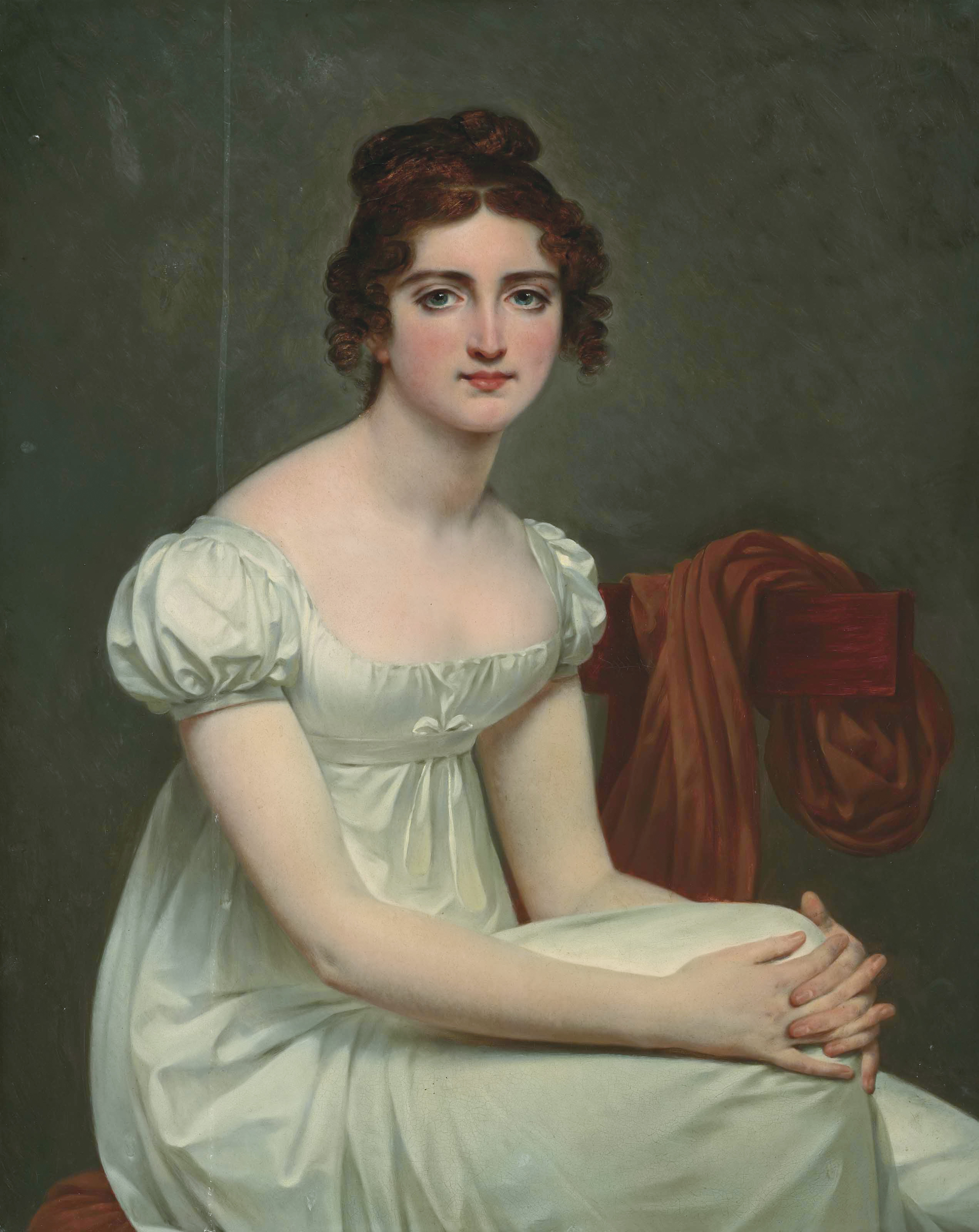 Hélène Charlotte Pauline Dessolles (1803-1864) oil on panel 91,5 x 73,2 cm.